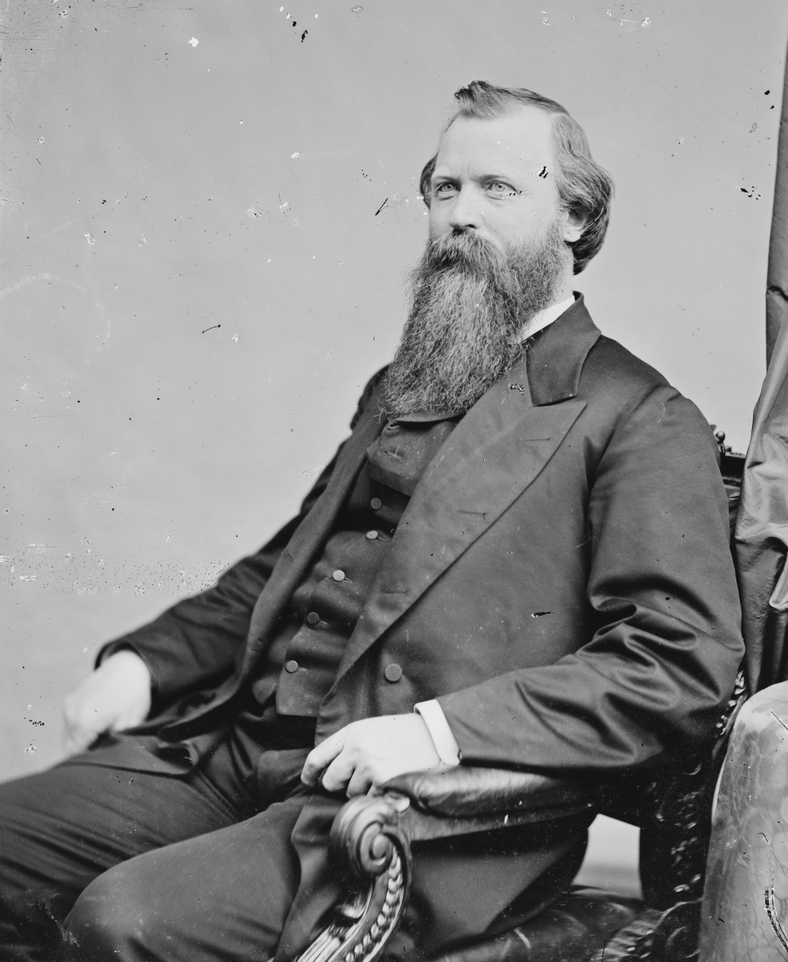 William M. Stewart. Library of Congress description: "Hon. Wm. Morris Stewart of Nevada"